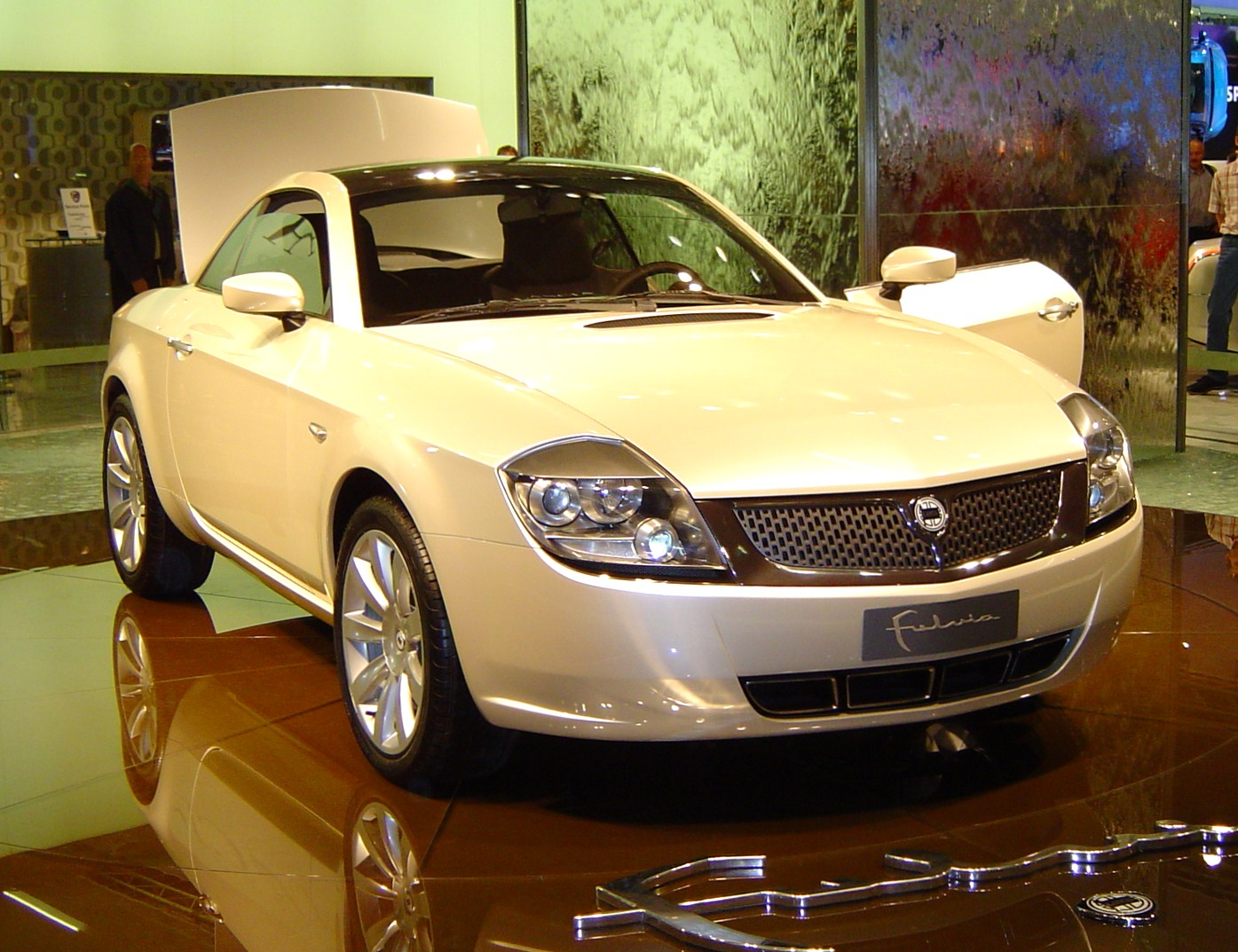 Lancia Fulvia 1.8 16V concept car